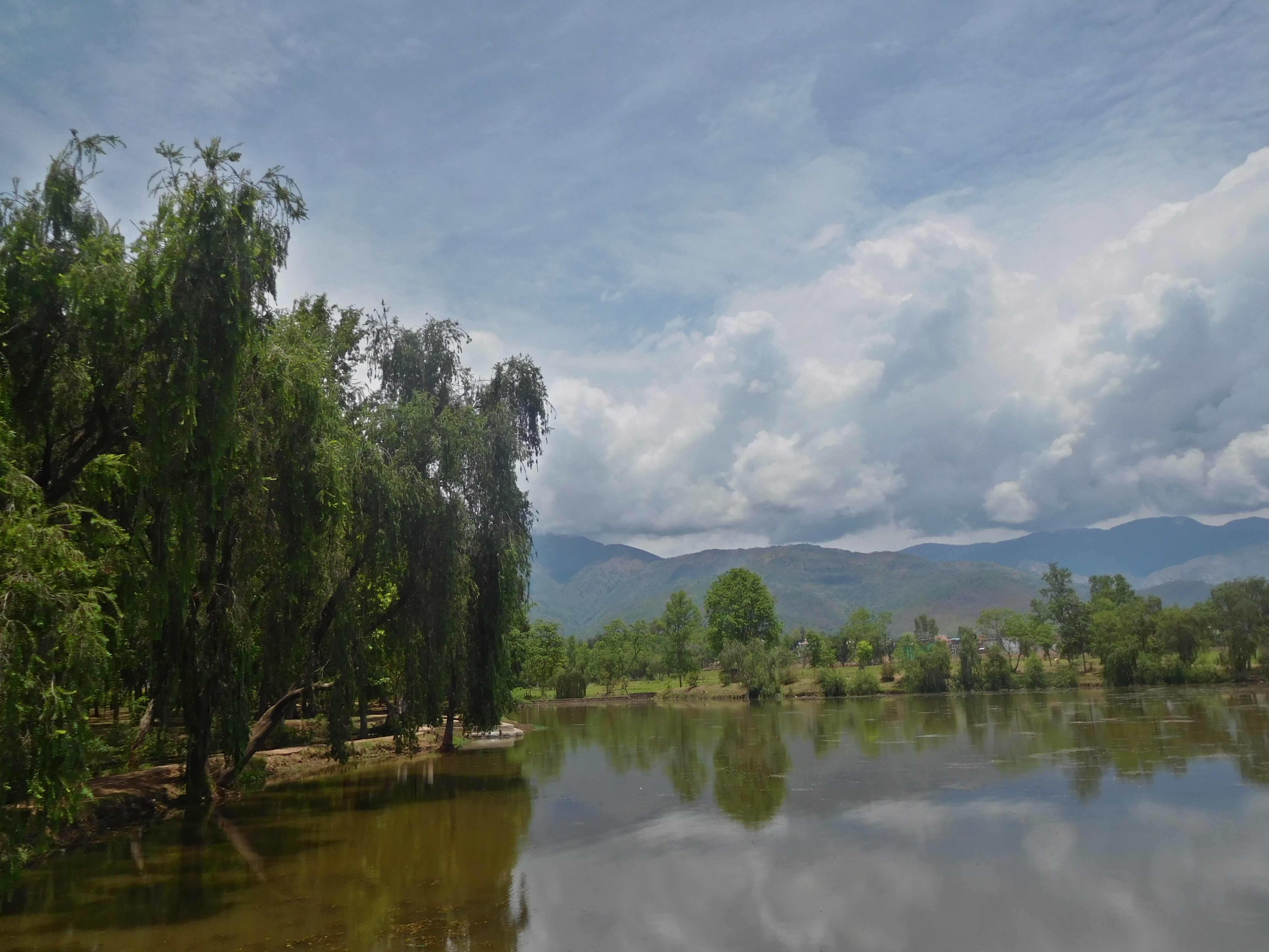 View of Bulbule lake, Surkhet, Nepal.